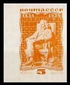 Stamp of the Soviet Union "100th anniversary of Dmitri Mendeleev" (a proof), 1934, CPA 463.